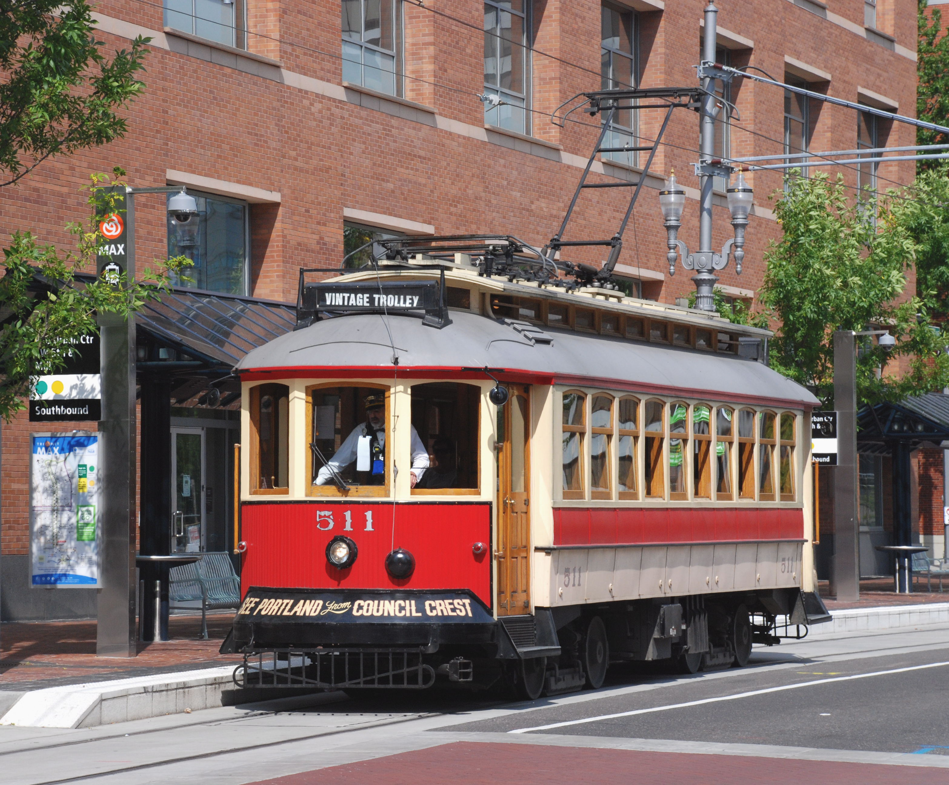 Portland Vintage Trolley car 511, a replica of a 1904 Brill streetcar, built in 1991 by Gomaco. It is pictured at the stop on 5th Avenue at Montgomery Street, on the Portland Transit Mall, in downtown Portland.